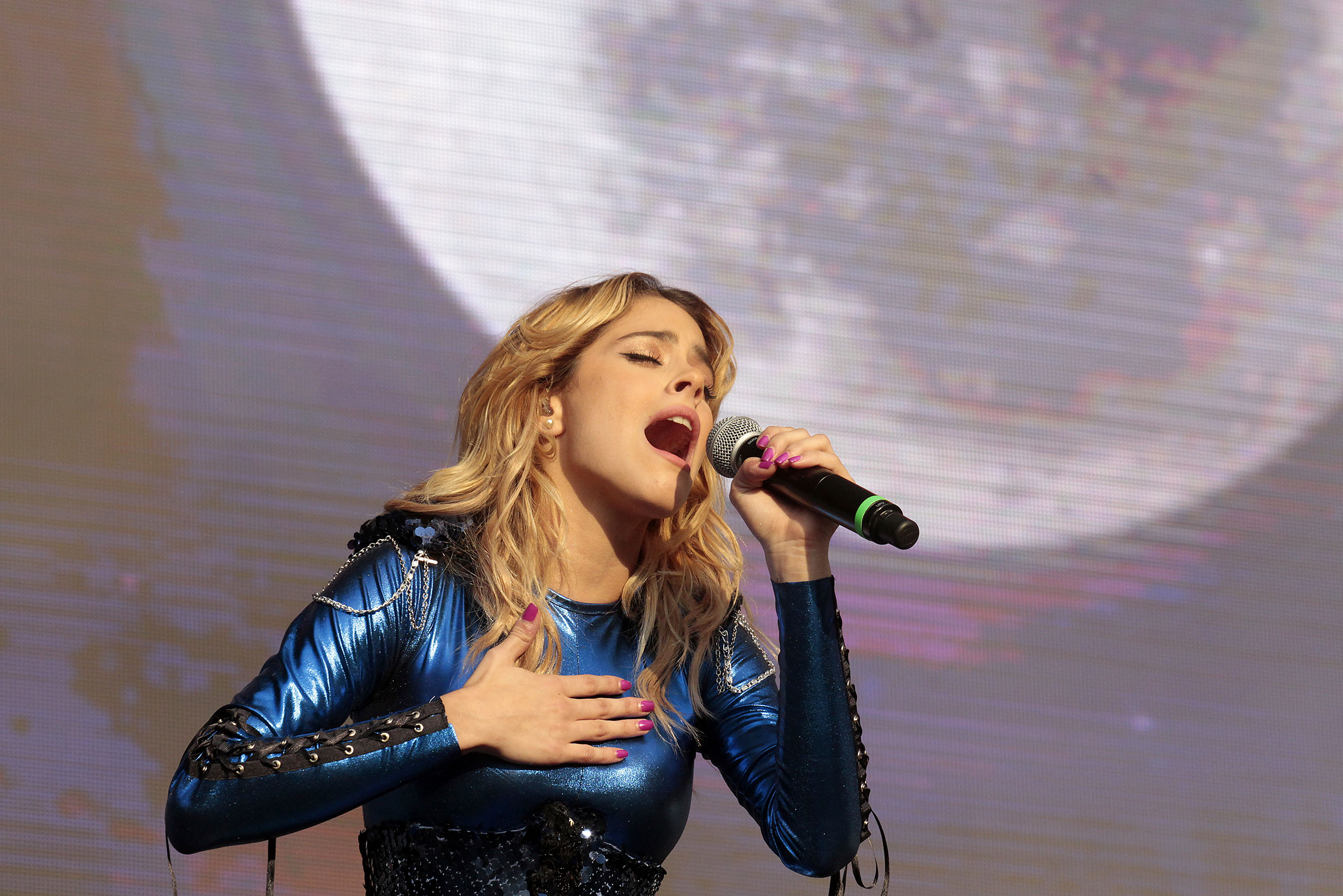 Martina Stoessel performing on May 2, 2014 during the free concert "Juntada Tinista" in Buenos Aires.